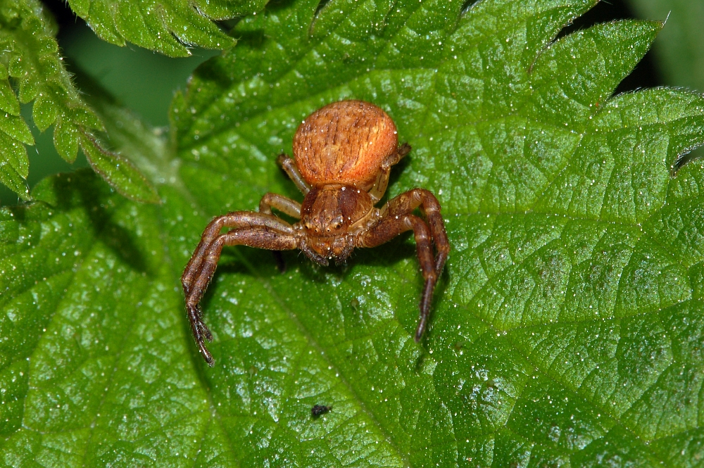 Xysticus lanio, Darmstadt, Germany